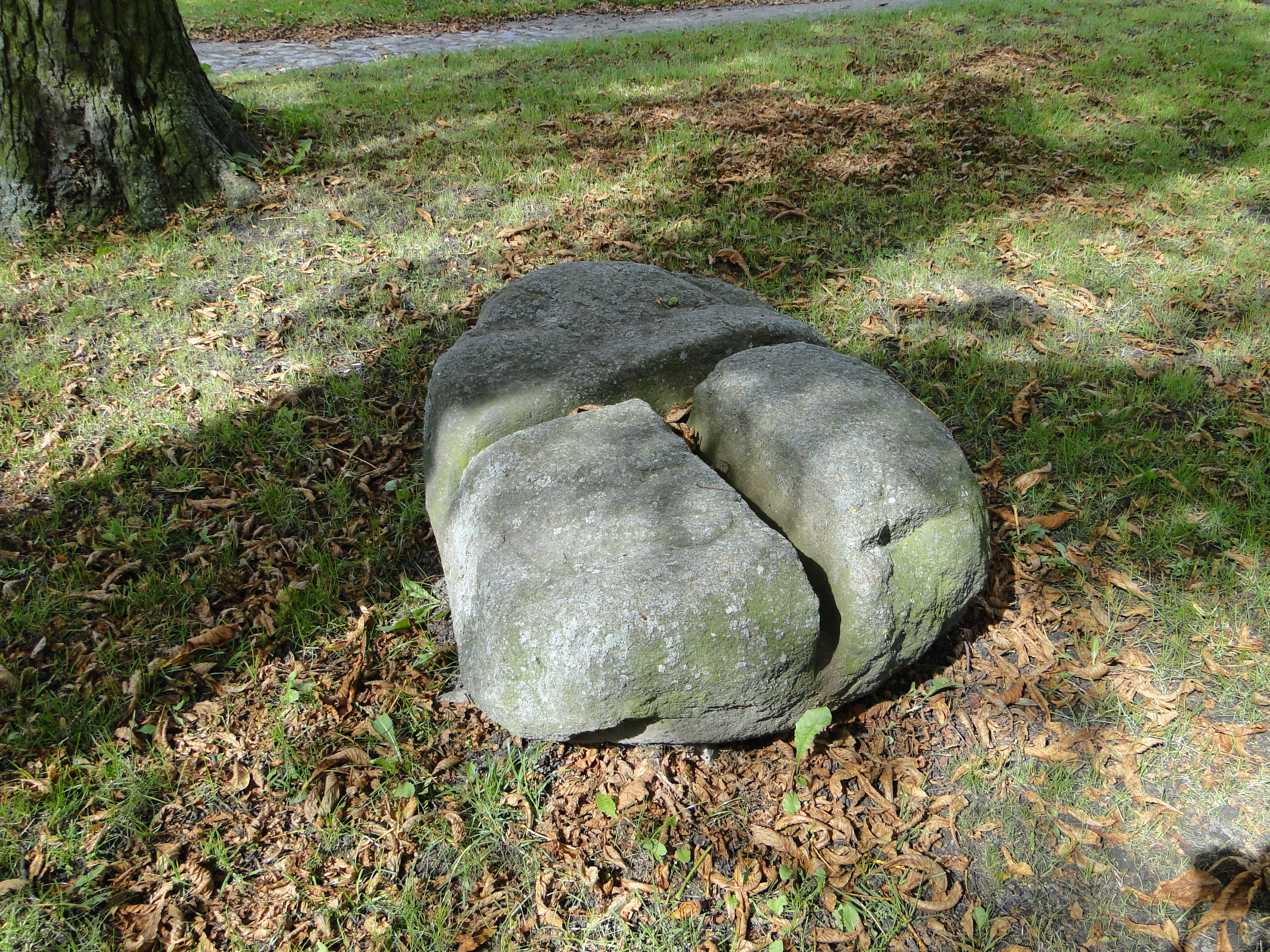 Rillenstein in Mollenstorf, district Müritz, Mecklenburg-Vorpommern, Germany